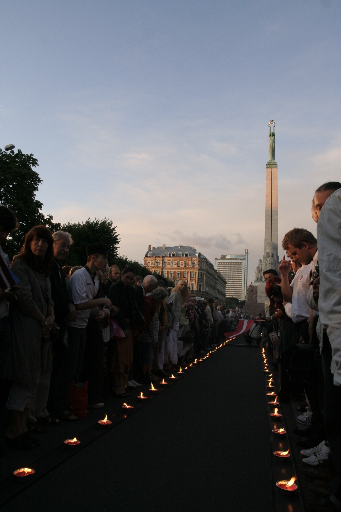 In 2009. August 23. evening in the center of Riga to the Statue of Liberty lit candles symbolically marked the Baltic Way twenty years